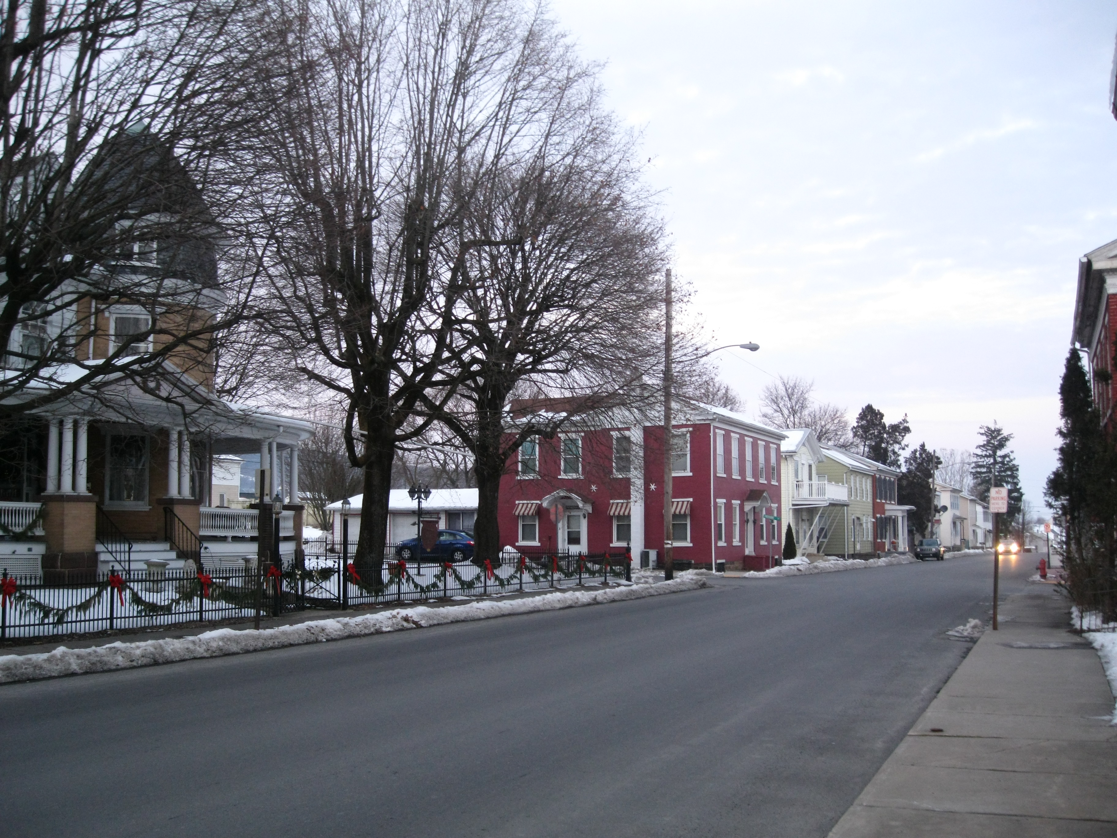 View east on Pennsylvania Route 35 (Market Street) in the borough of Freeburg, Pennsylvania in Snyder County, Pennsylvania, USA.